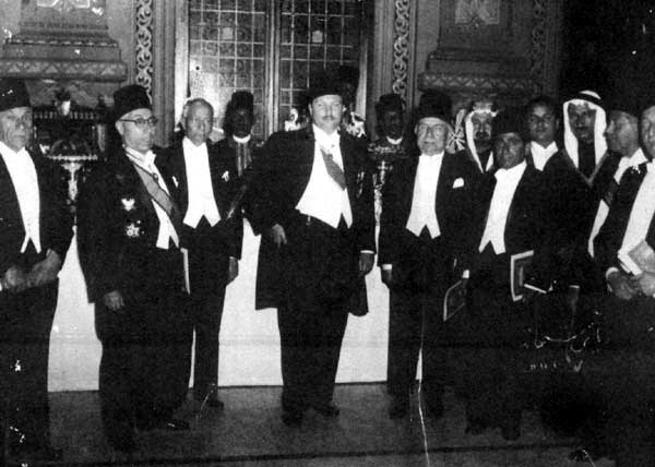 King Farouk at court with Jamil Mardam Bey during an event